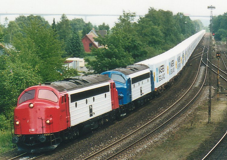 TraXion MY1134 + MY1110 with Maersk containertrain near Vejle